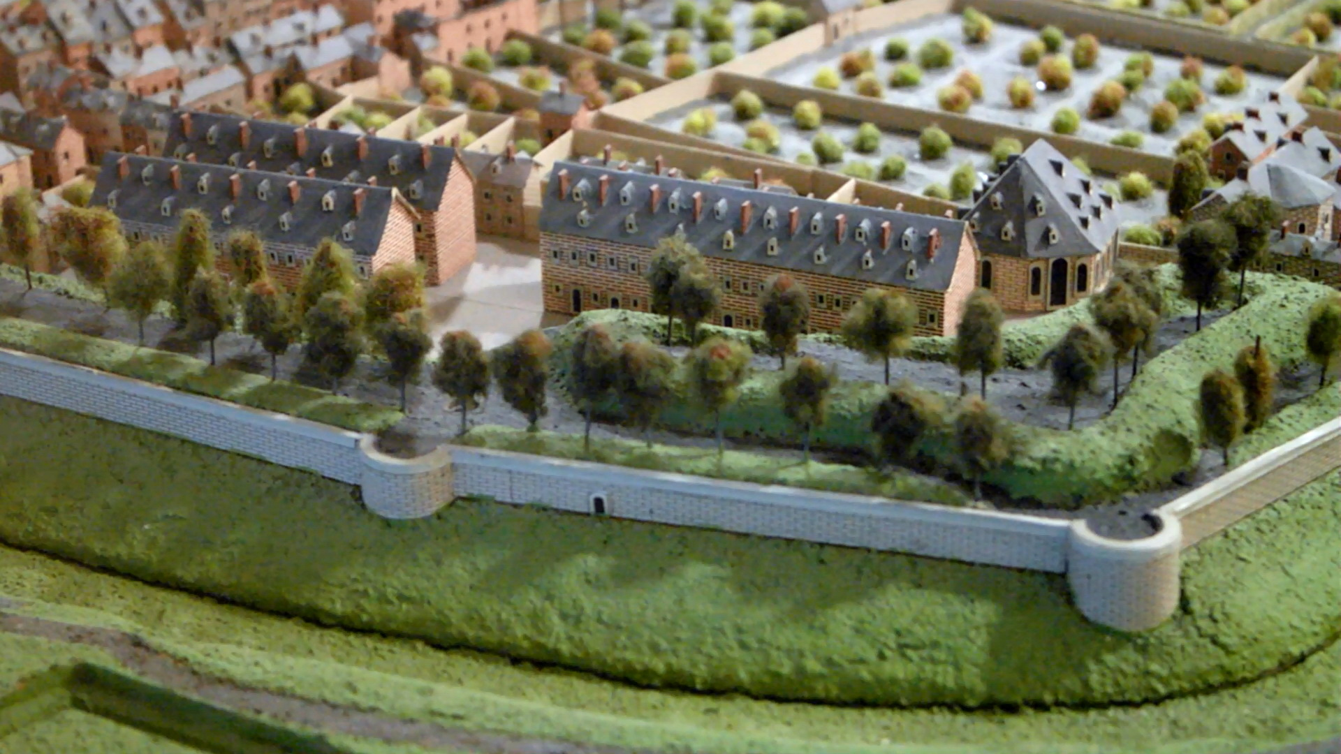 Detail of the copy of the French Maquette of Maastricht on display in Centre Céramique, Maastricht, the Netherlands. The copy was built in 1974-1982, based on the mid-18th-century scale model made for King Louis XV of France after his conquest of Maastricht. This section shows the southwestern city wall and the so-called kat or cavalier Brandenburg (defensive elevation on the inside of the city wall). Behind the cavalier are military barracks and the Jeker Manège (former horse stables converted into a theater).